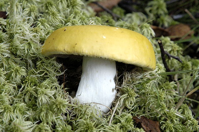 Russula claroflava from Commanster, Belgium. The determination of the species shown in this picture has been verified.